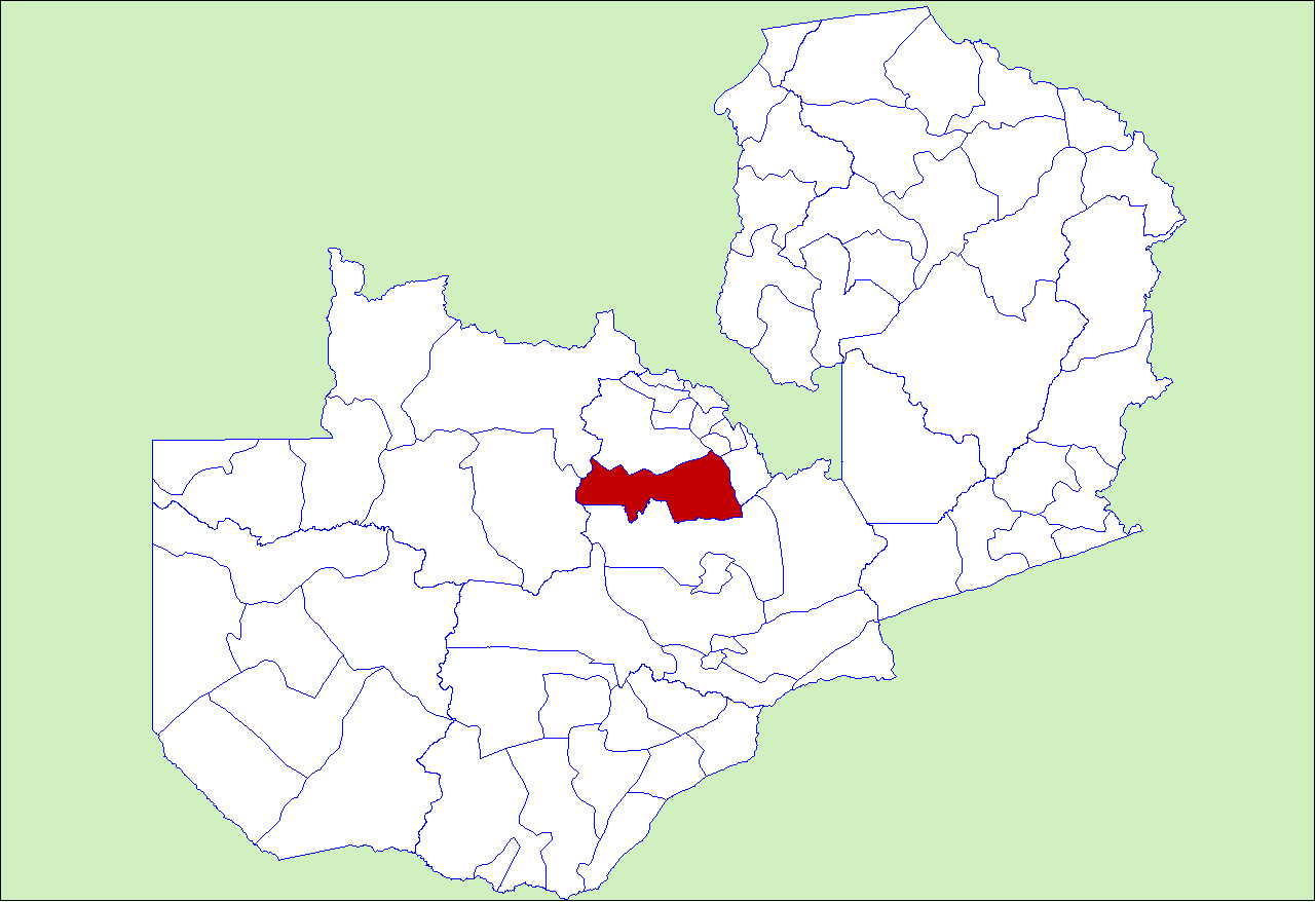 District locator in Zambia